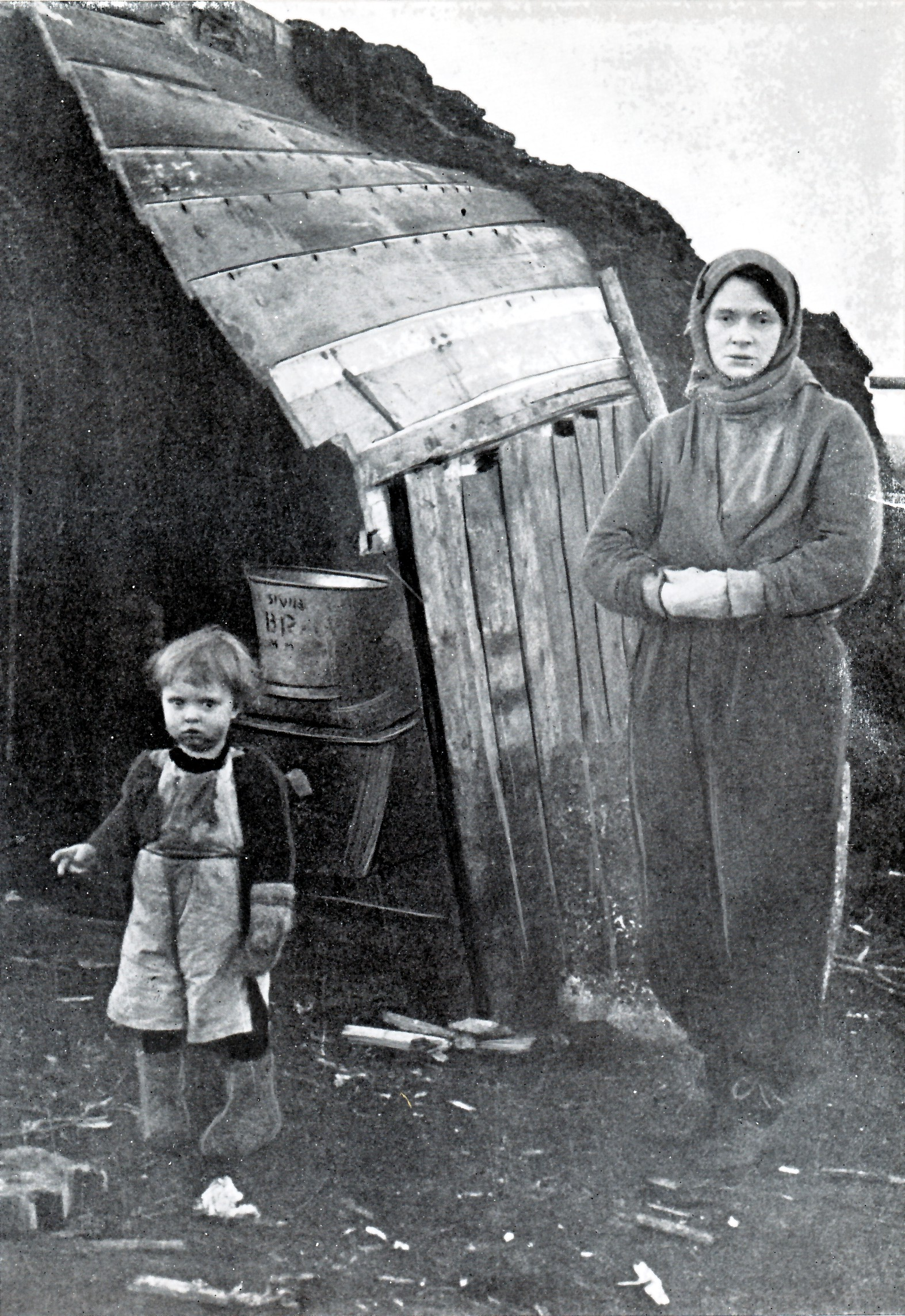 Mother with child in Finnmark during World War II, probably following the scorched earth tactics and the German withdrawal from September 1944.